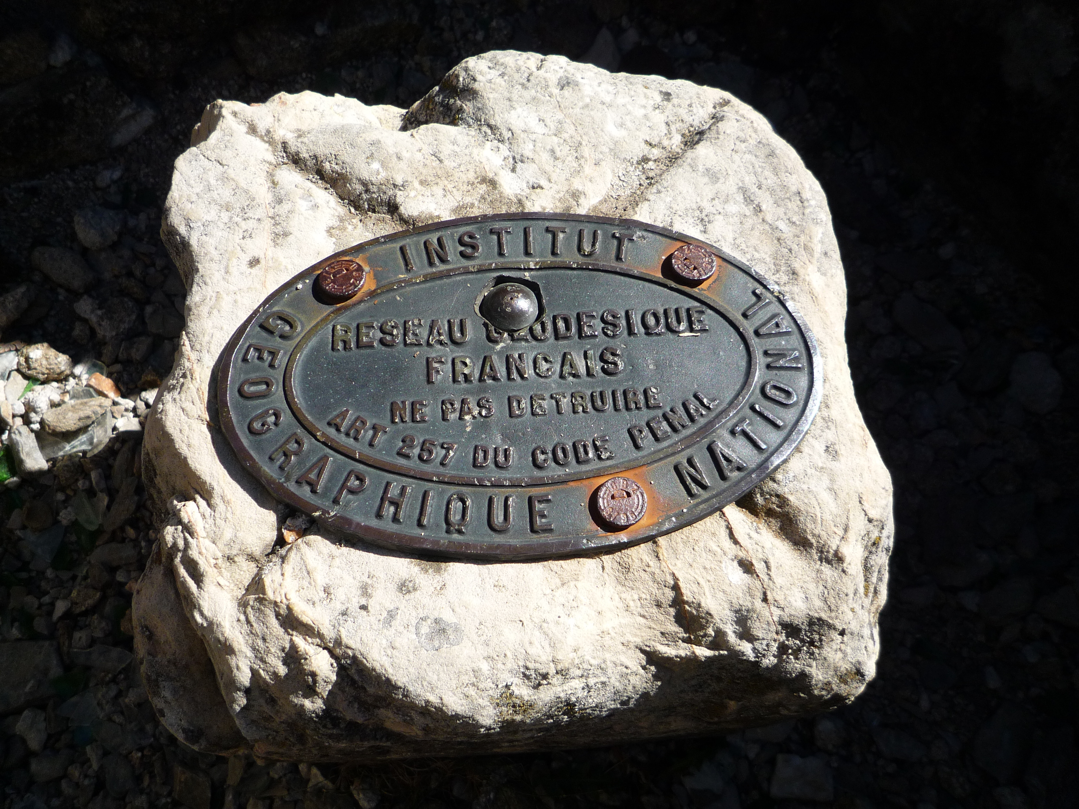 Point of the "réseau géodésique français" at Mont Ventoux.